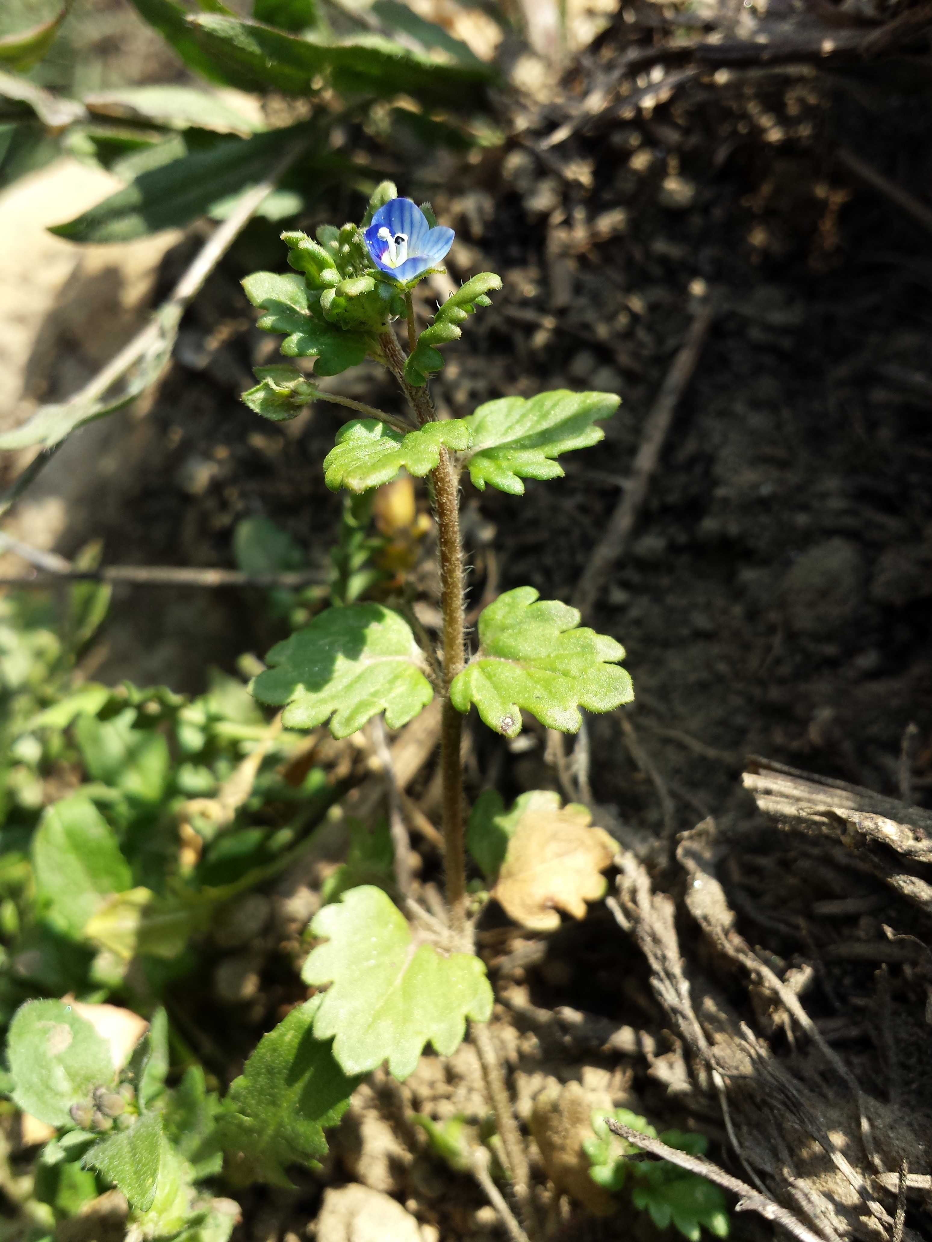 Habitus Taxonym: Veronica polita ss Fischer et al. EfÖLS 2008 ISBN 978-3-85474-187-9 Location: Irrbling near Schönberg am Kamp, district Krems-Land, Lower Austria - ca. 350 m a.s.l. Habitat: wineyard